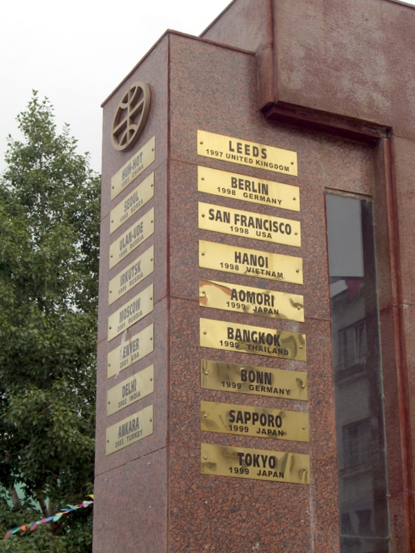 Plaques depicting the twin cities of Mongolian capital, Ulaan Bataar.